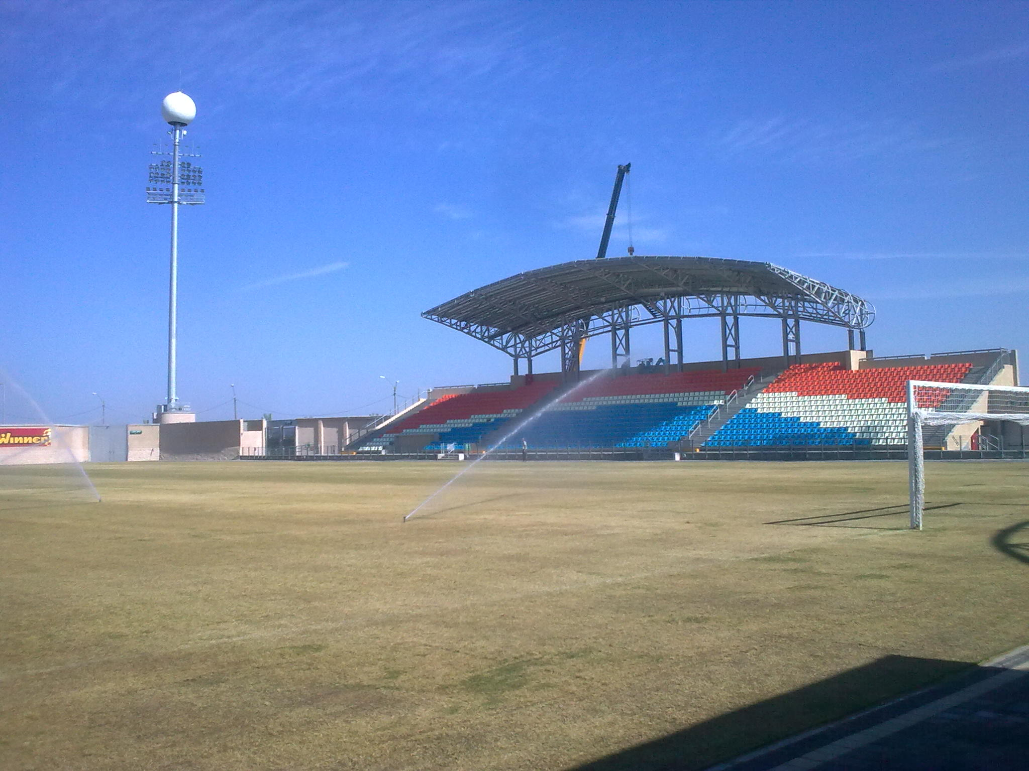 Acre Municipal Stadium